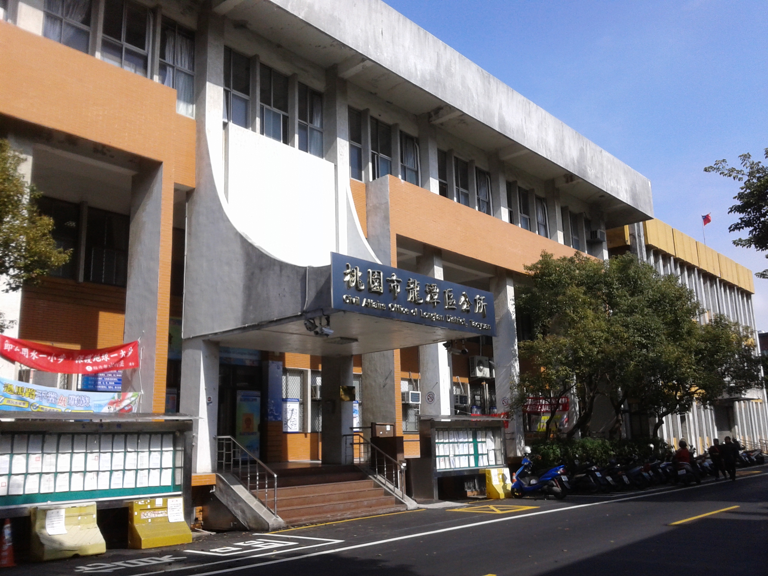 龍潭區公所 Longtan District Office